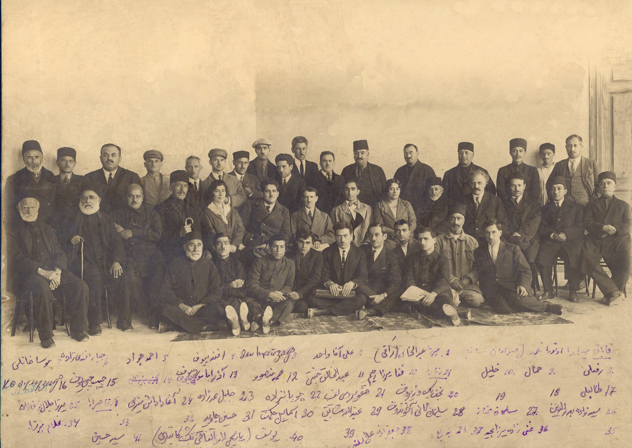 Union of Azerbaijani Writers with Salman Mumtaz (with his writing)